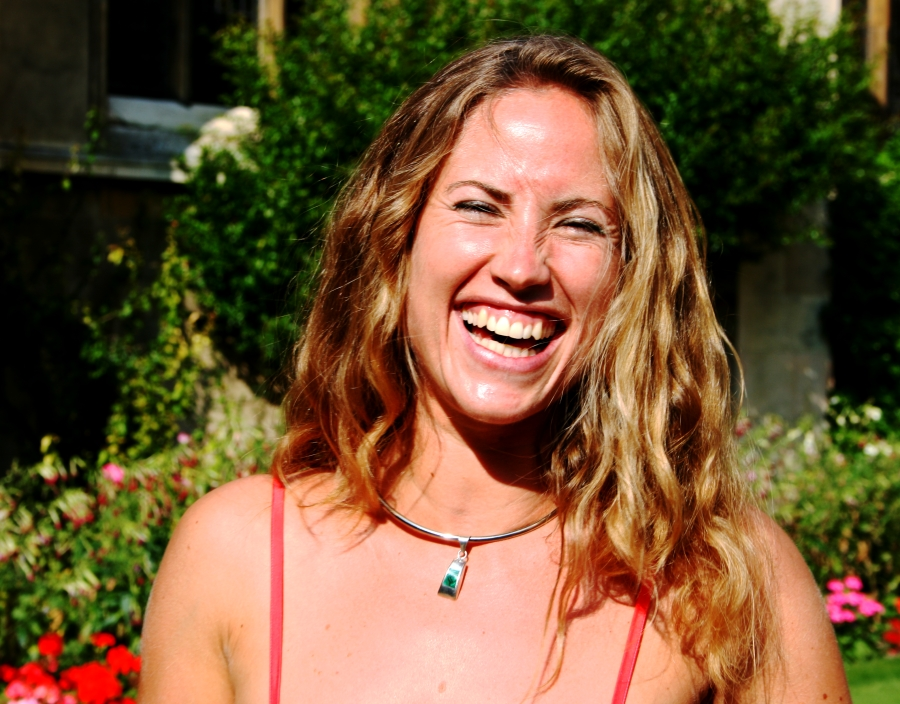 laughing woman